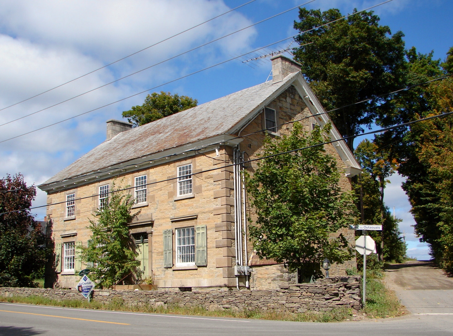 Cushing (part of Brownsburg-Chatham), Quebec, Canada